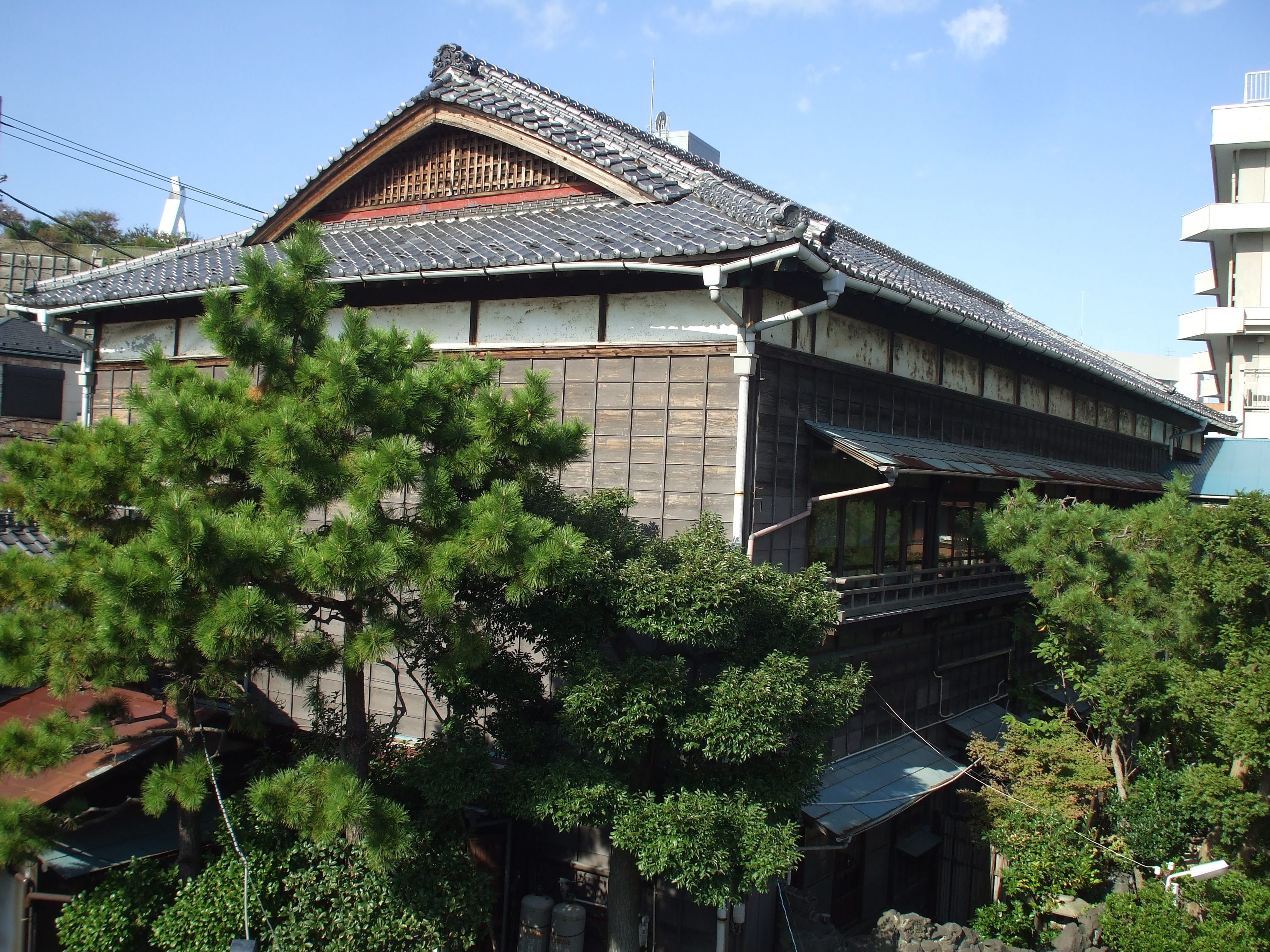 Komatsu is a Japanese restaurant in Yokosuka, Kanagawa, Japan.